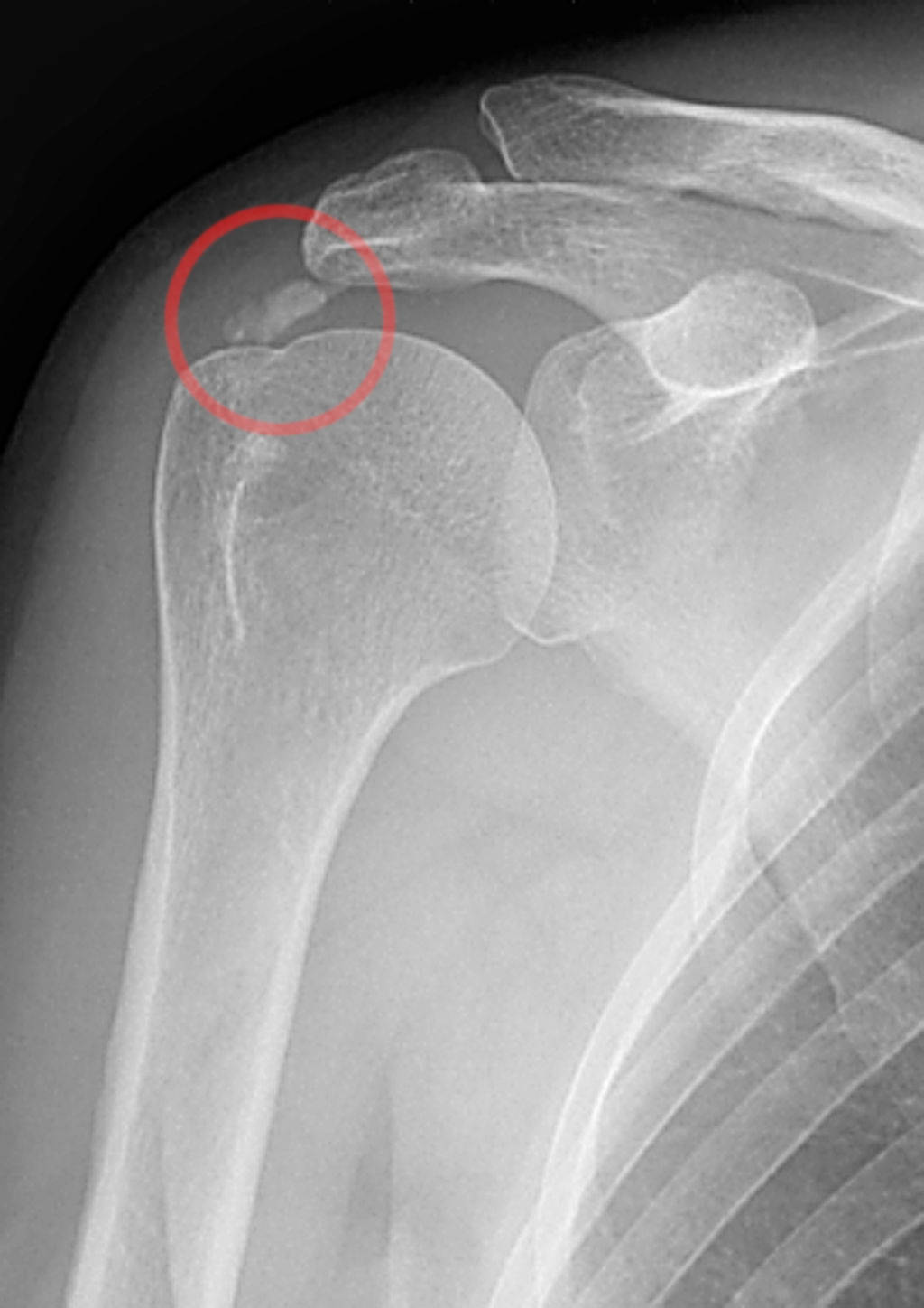 X-ray of a right shoulder with calcific deposits (Calcific tendinitis)